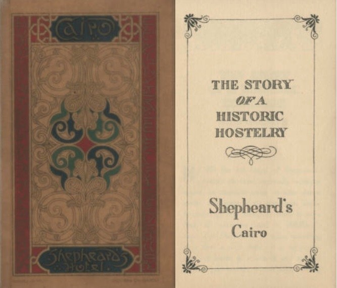 Cover and title page of a short pamphlet covering the history of Shepheard's Hotel. Published i 1934 by the hotel owners.